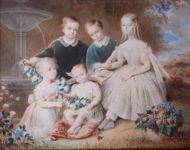 Children of Vittorio Emmanuele II and Adelaide of Austria